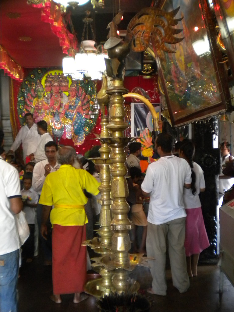 Interior of Kataragama temple, with tapestry of Murugan (Skanda) in the background